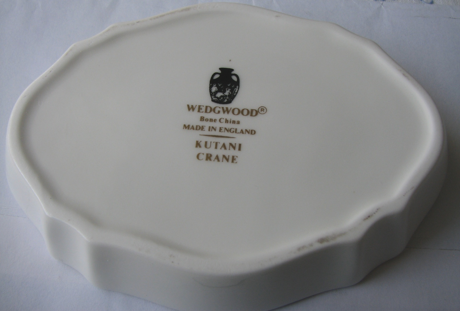 Wedgwood pottery